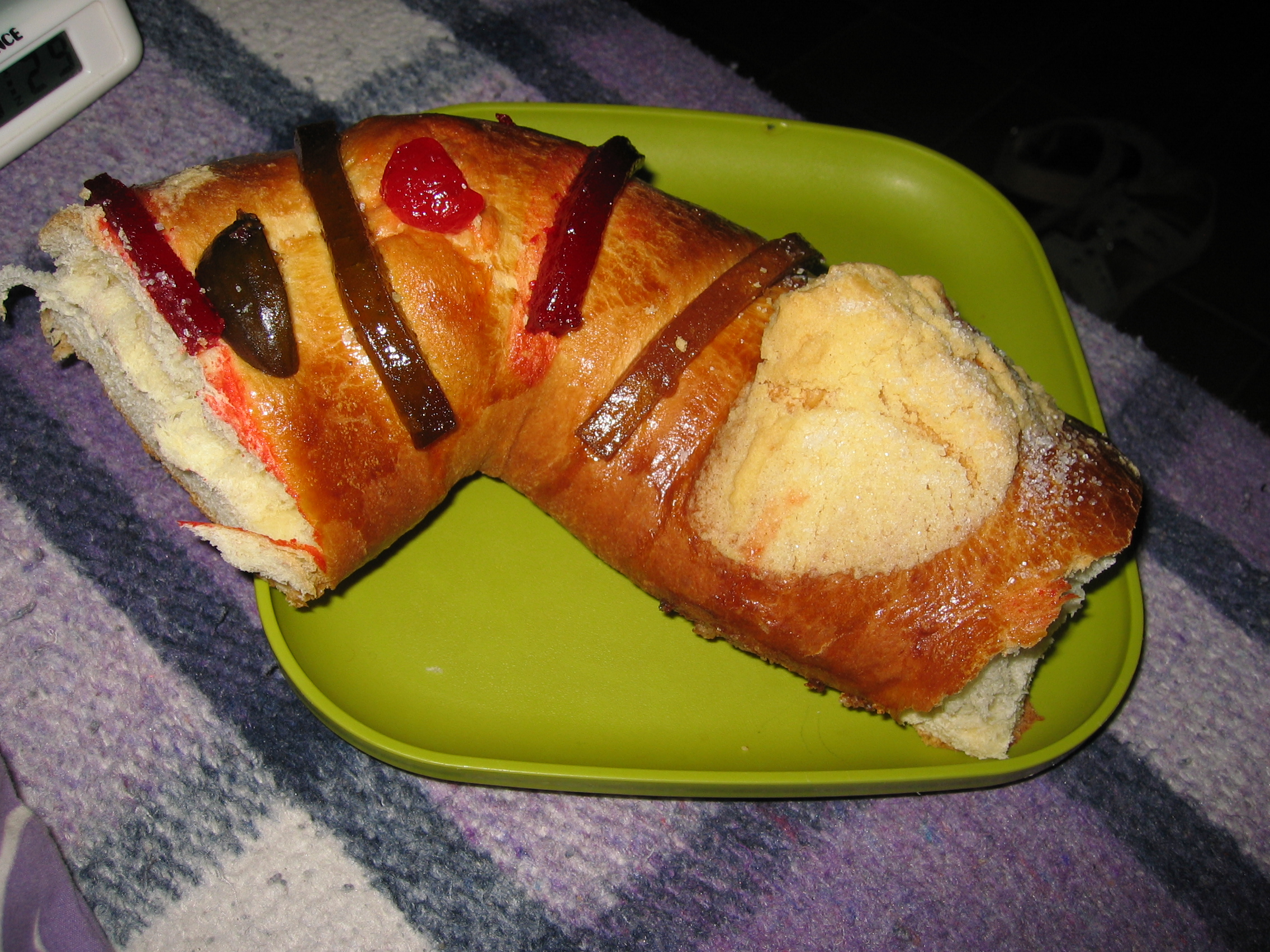 This is part of a Rosca de Reyes in Tlalpan, DF, Mexico, Mexico.